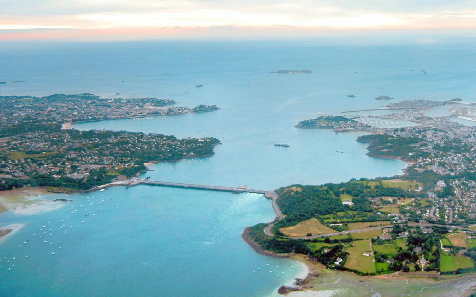 Aerial view of the tidal barrage on the Rance and of Saint Malo